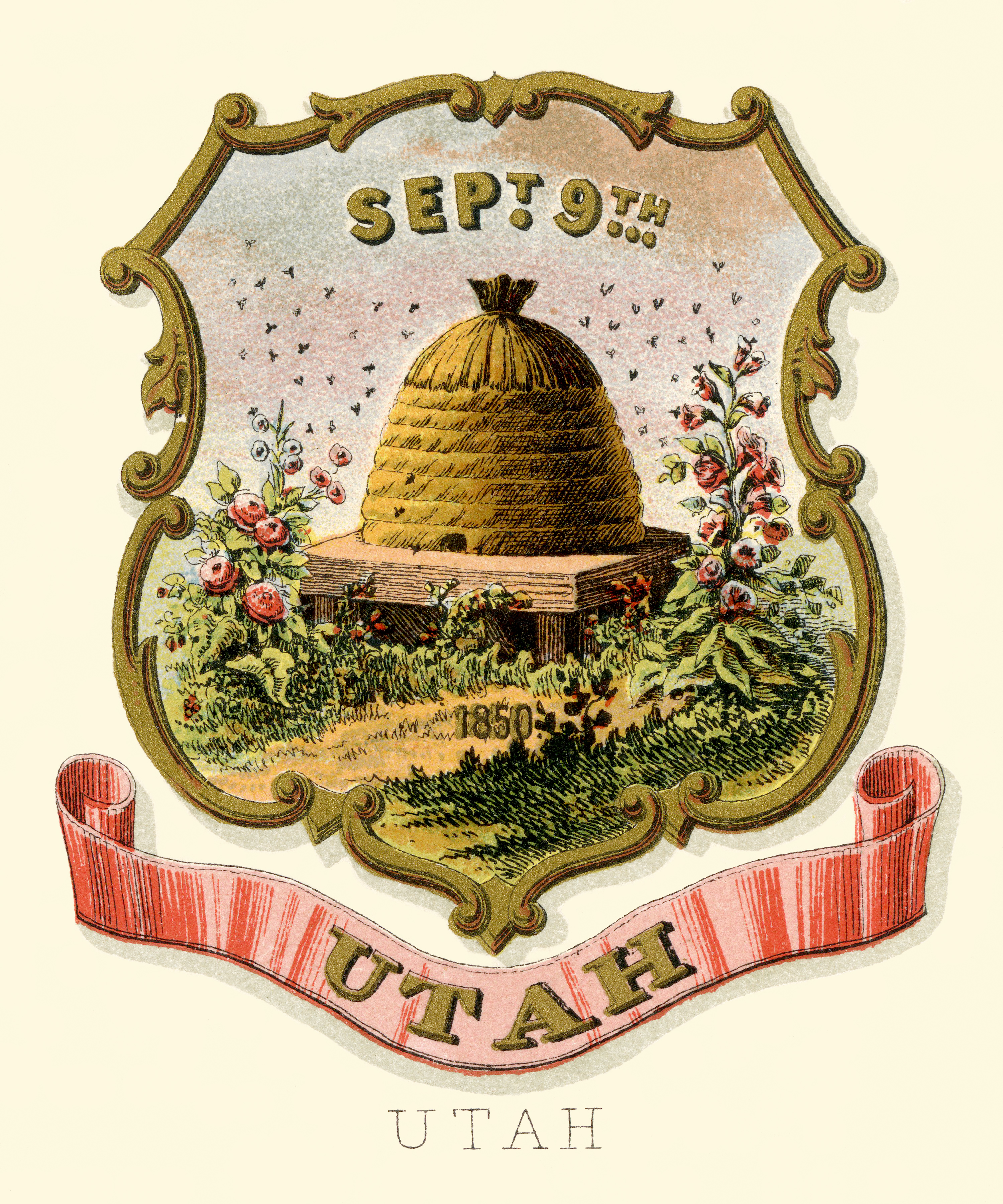 Utah territory coat of arms